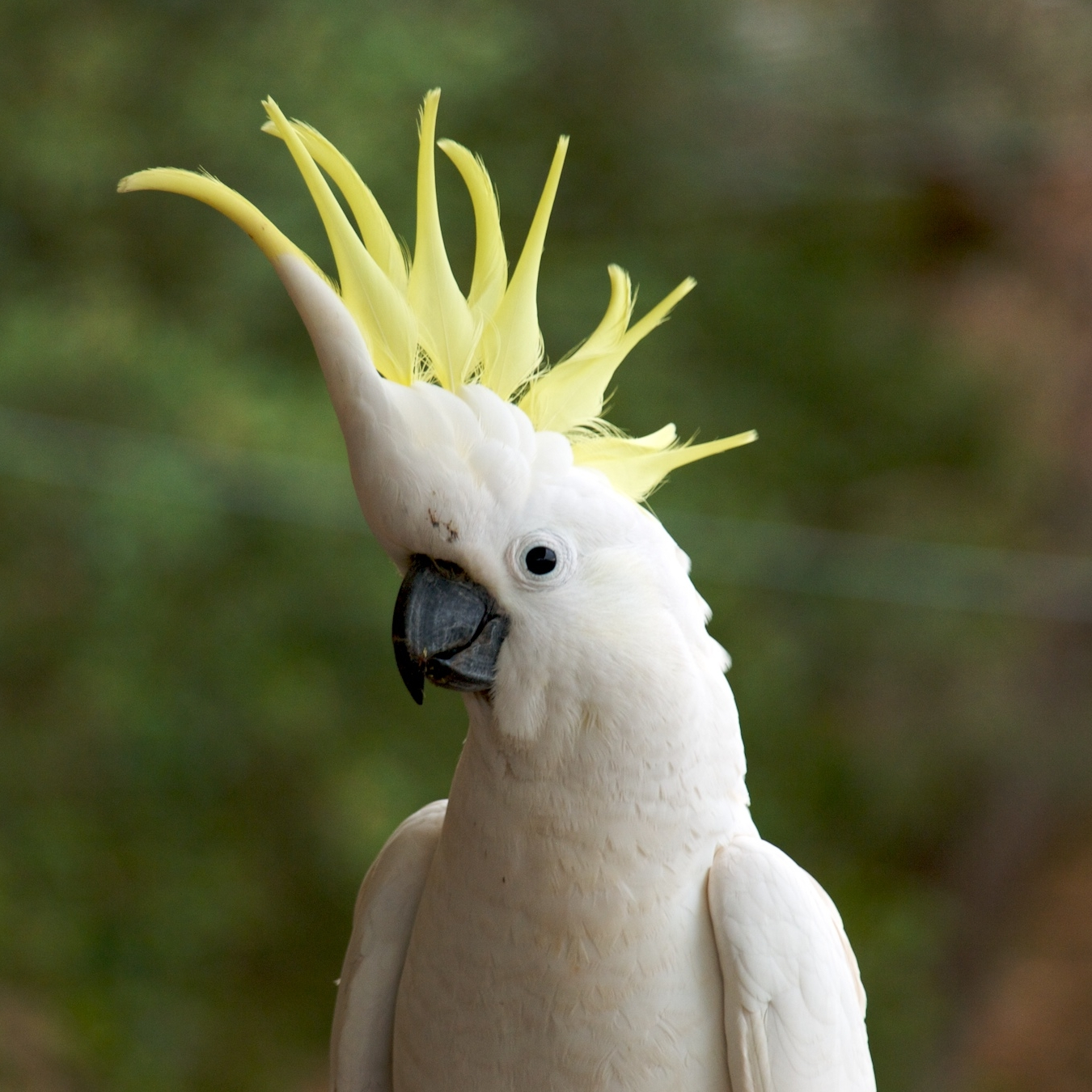 Sulphur-crested Cockatoo displaying its crest in Sydney, Australia.